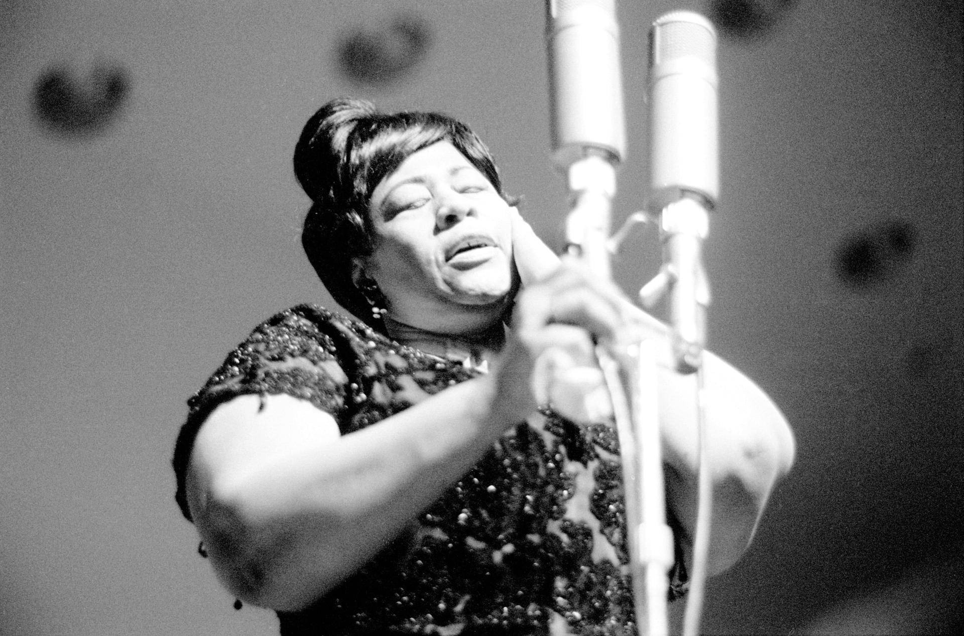 Photograph of Ella Fitzgerald performing in Helsinki Culture Hall.